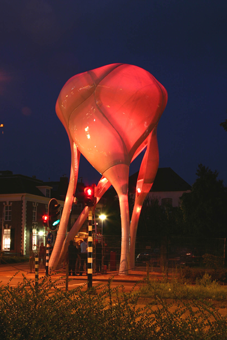 D-Tower by Lars Spuybroek and Q.S. Serafijn, night view